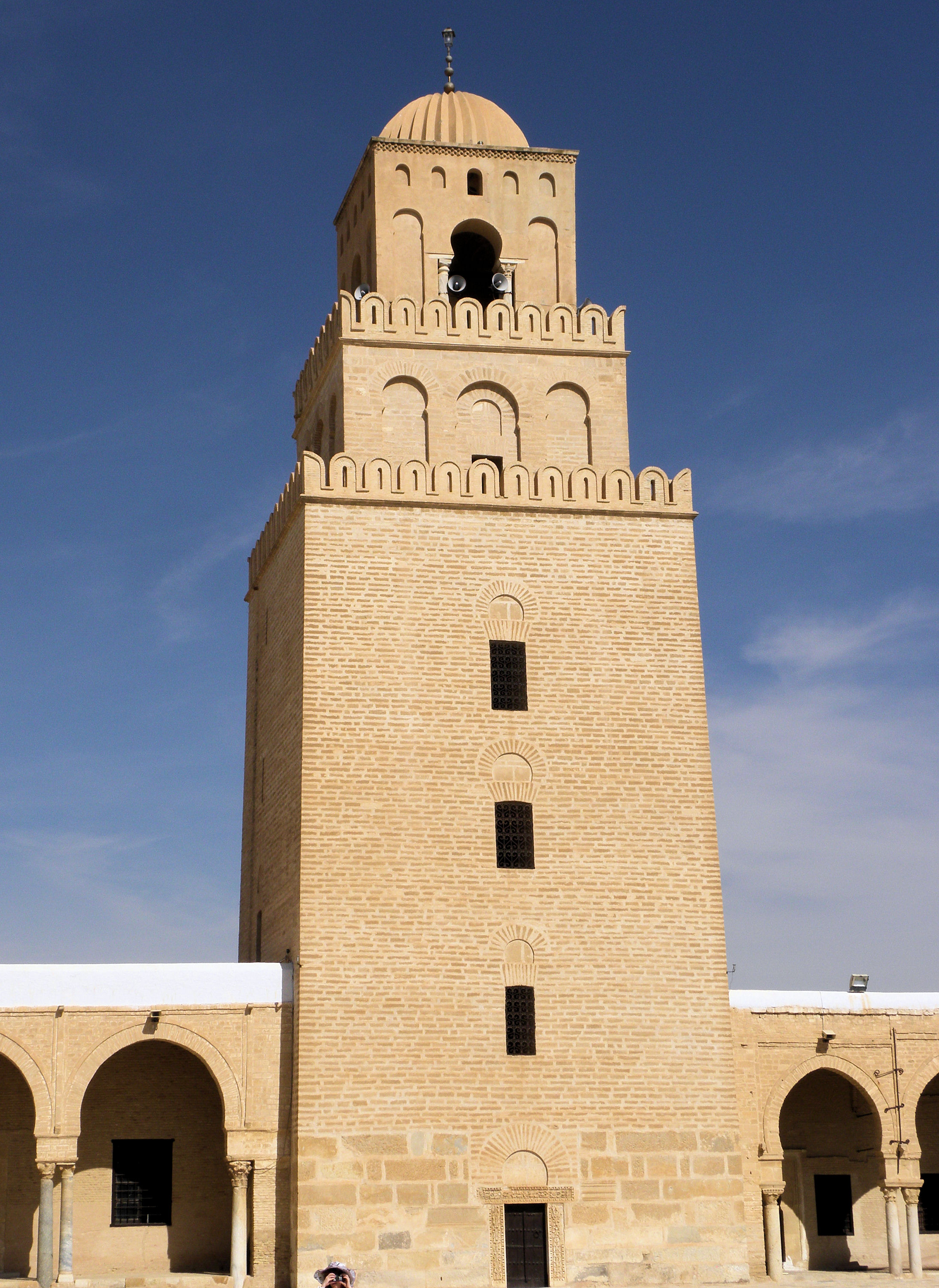 Minaret of the Great Mosque of Kairouan, Tunisia. This minaret is a square-plan tower consisting of three superimposed stories of gradual size.